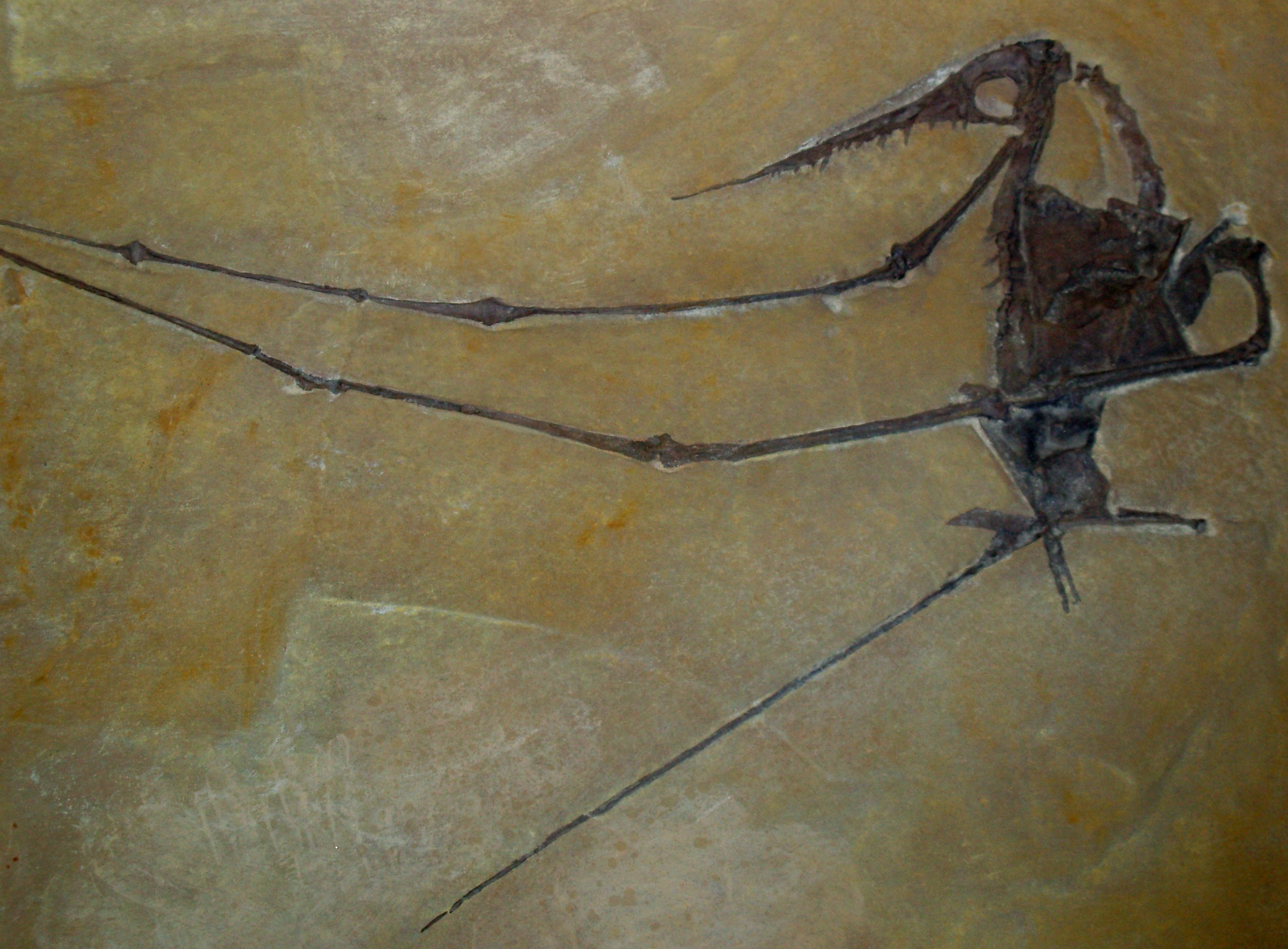 Rhamphorhynchus fossil, Museum of natural history, milano. Original italian text: fossile di Rhamphorhynchus conservato presso il Museo di Storia Naturale di Milano.